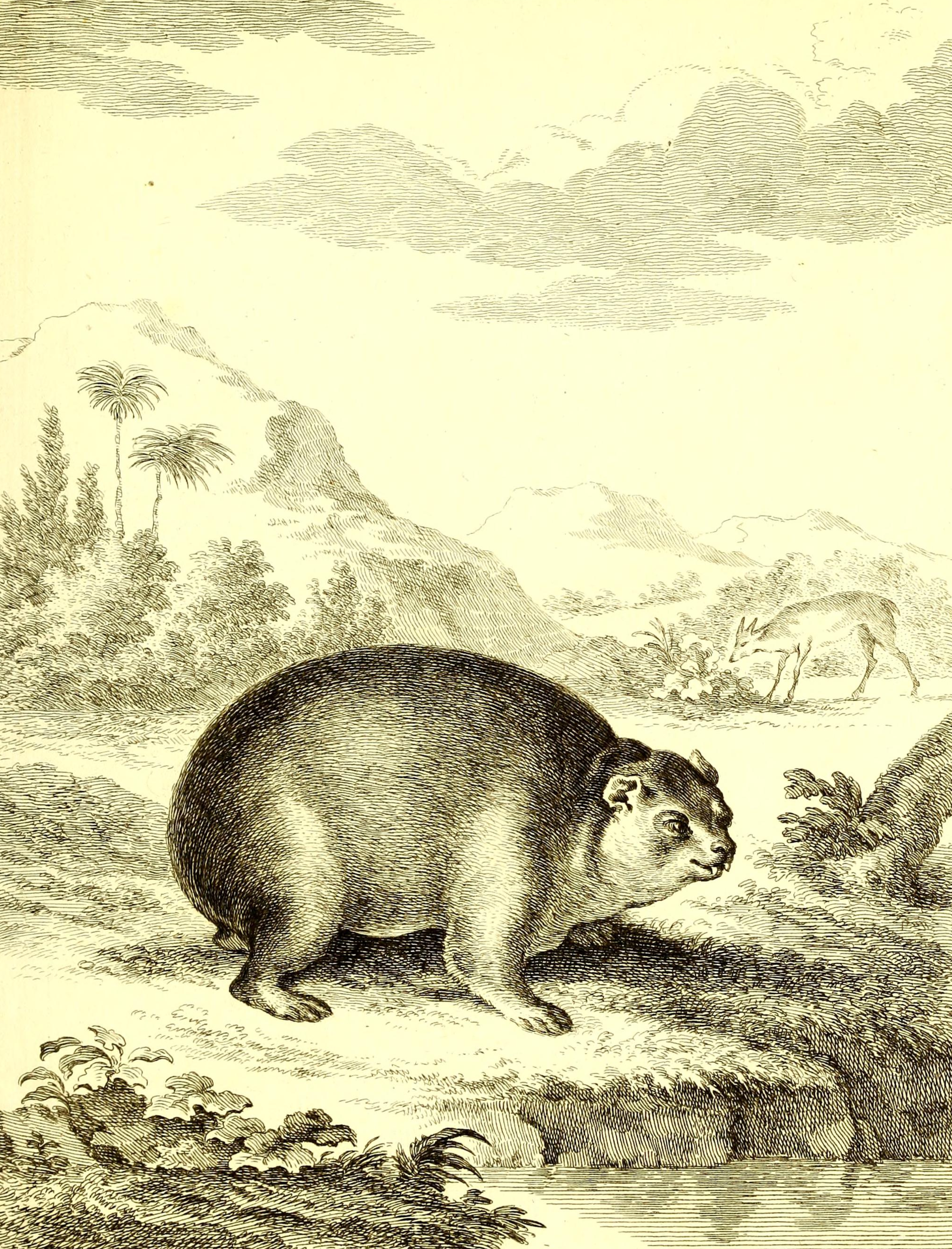 drawing of the rock hyrax from the species description by Peter Simon Pallas 1766